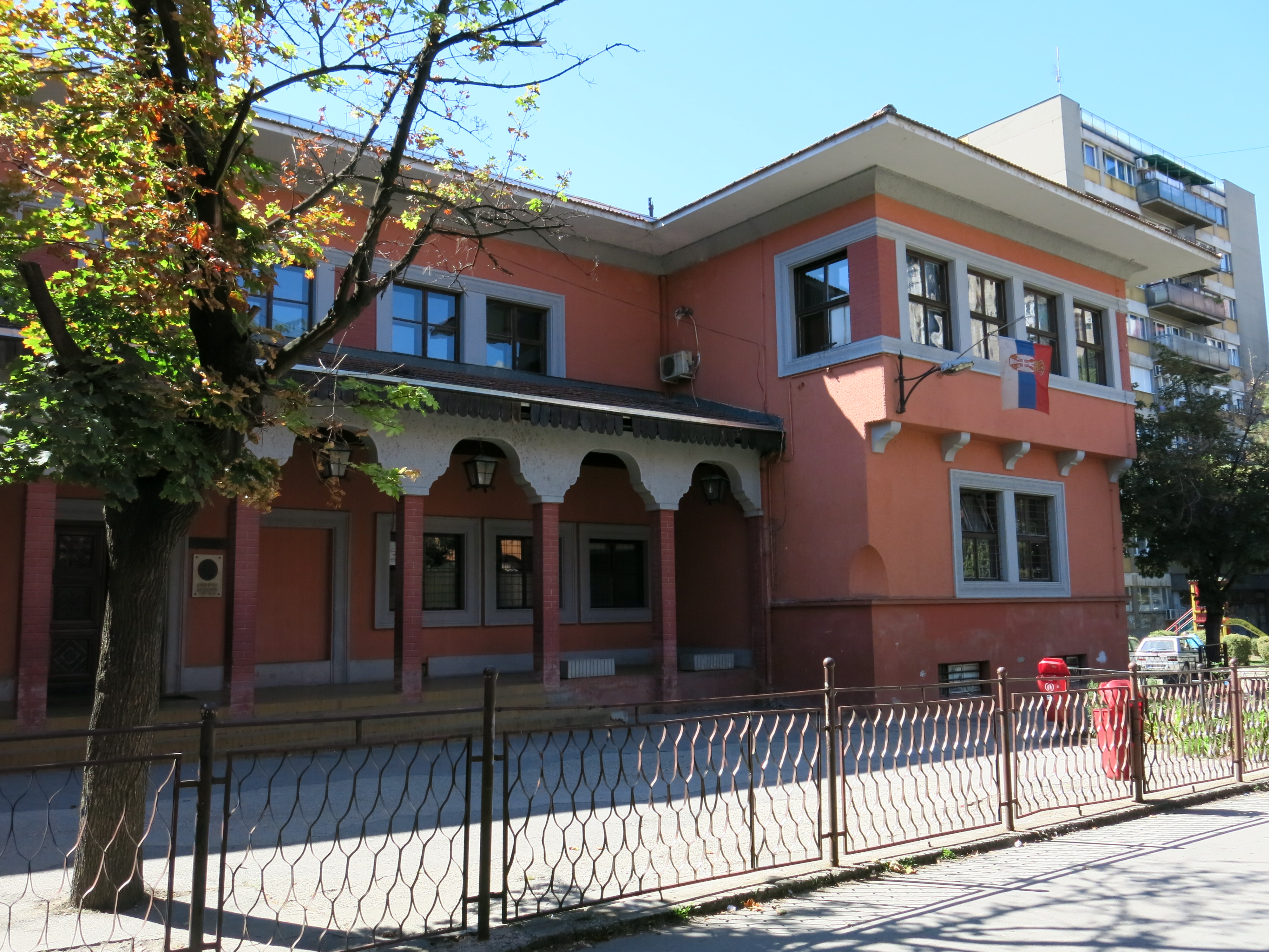 Smederevo, Elementary school Dimitrije Davidović